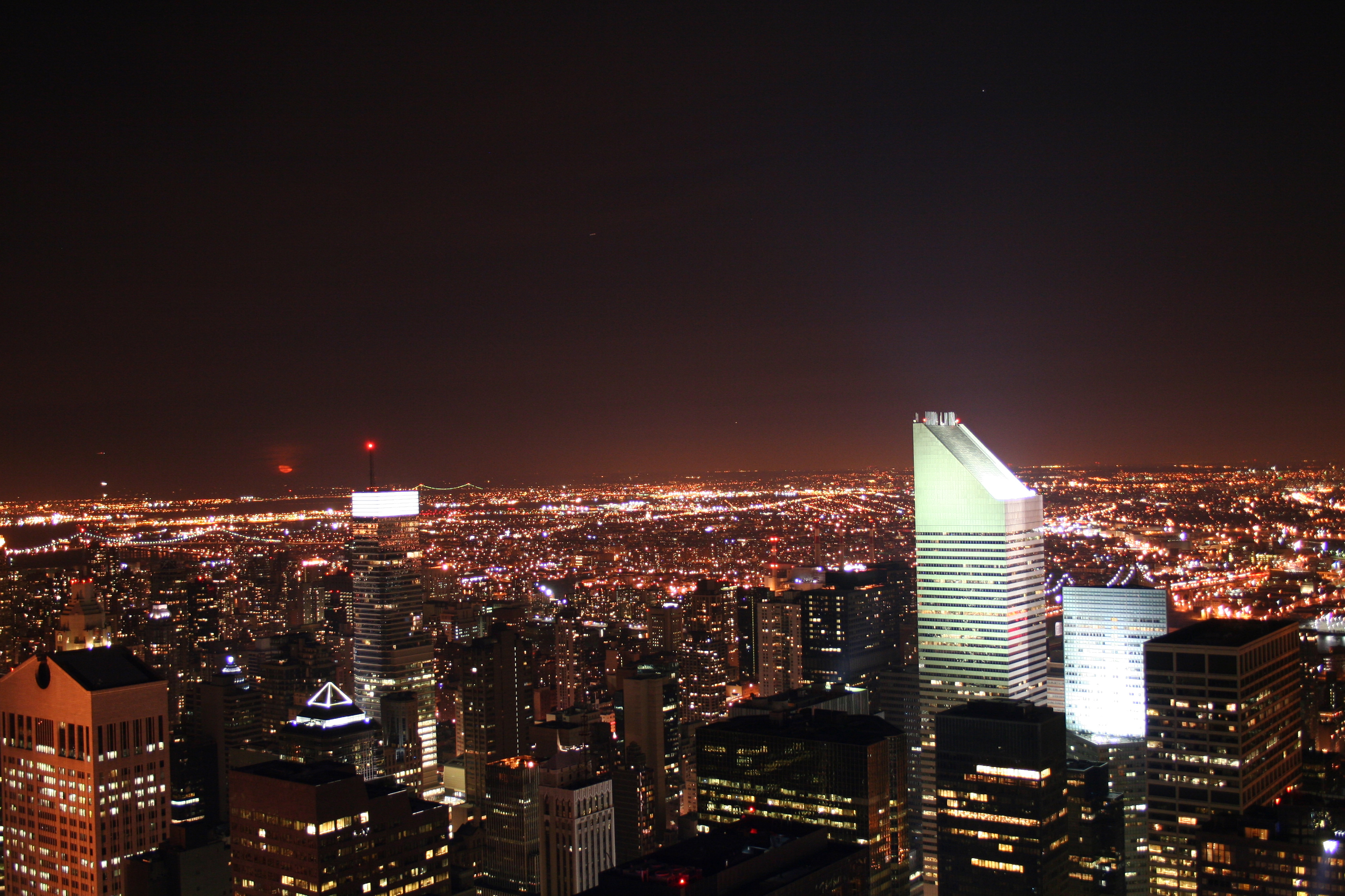 Author: Amar Raavi